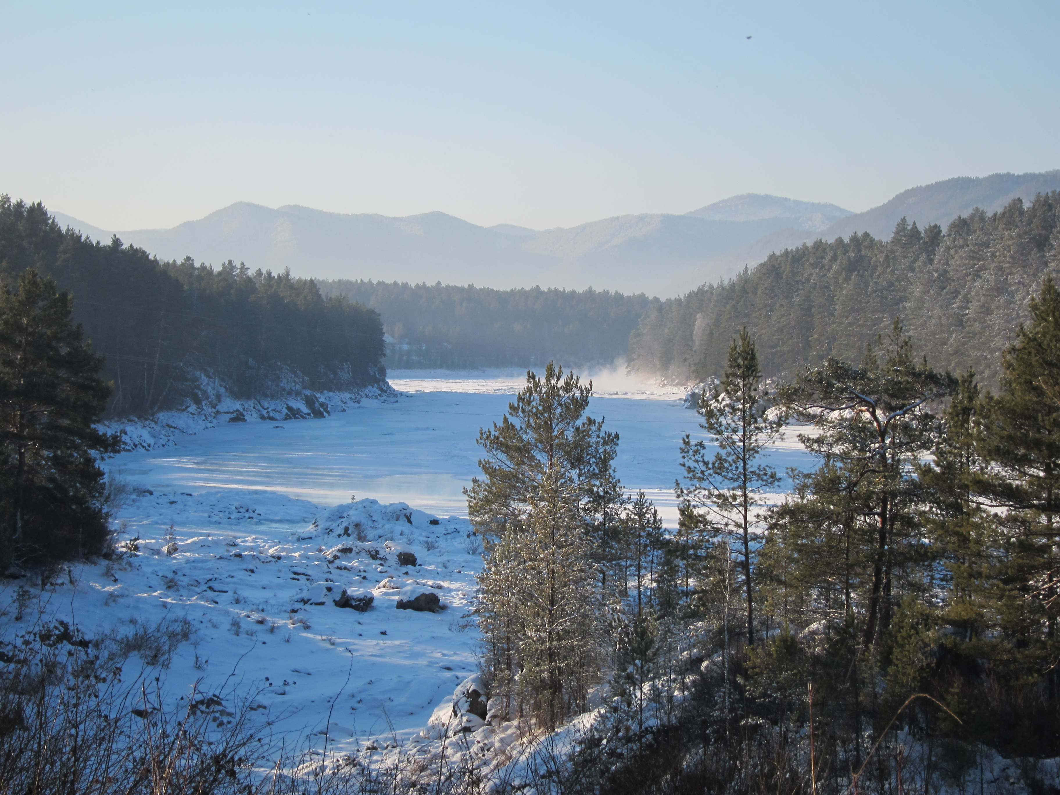 Katun River near Barangol settlement in winter